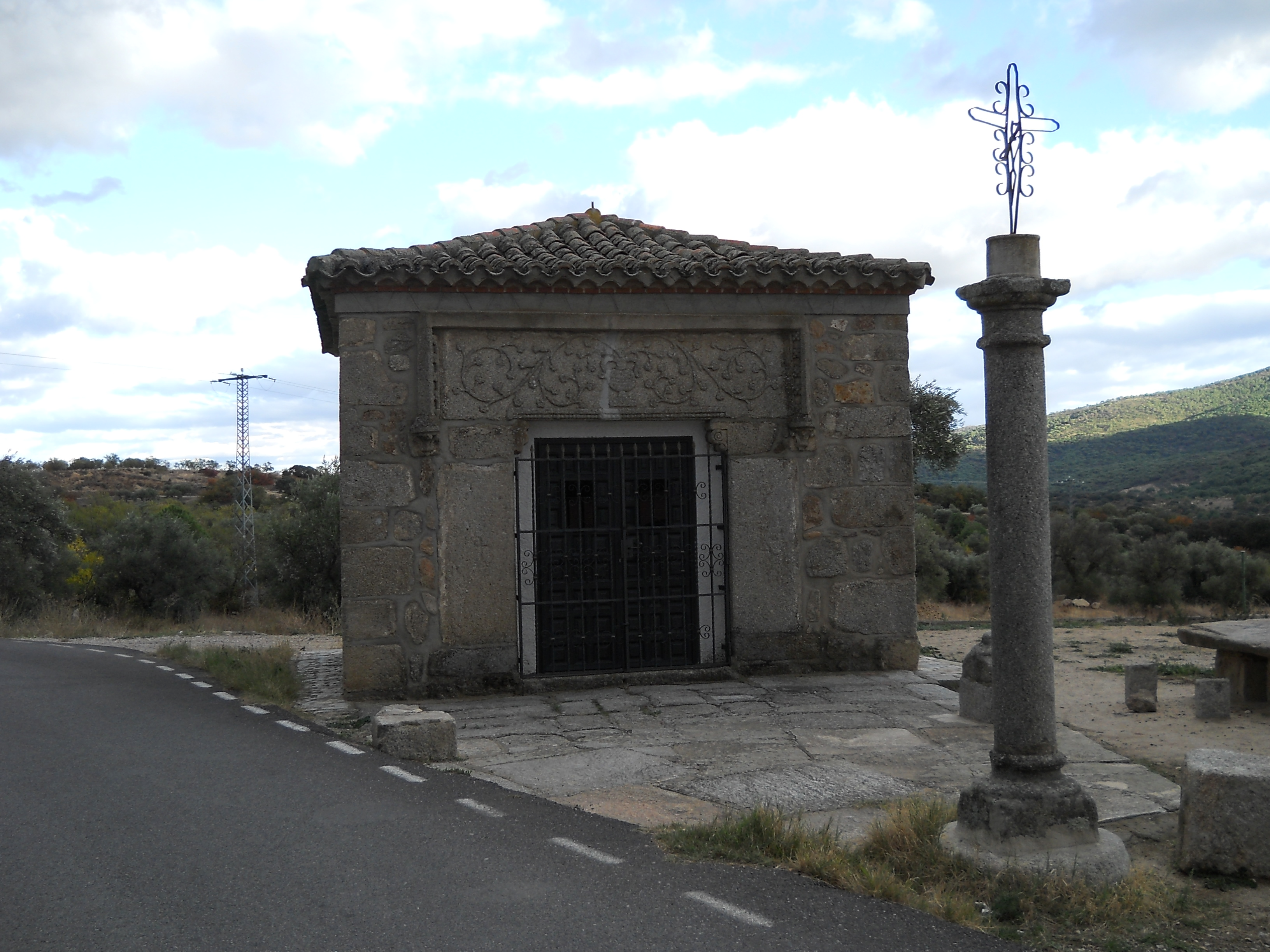 Chapel of the Rosary, San Martín de Valdeiglesias, Madrid, Spain